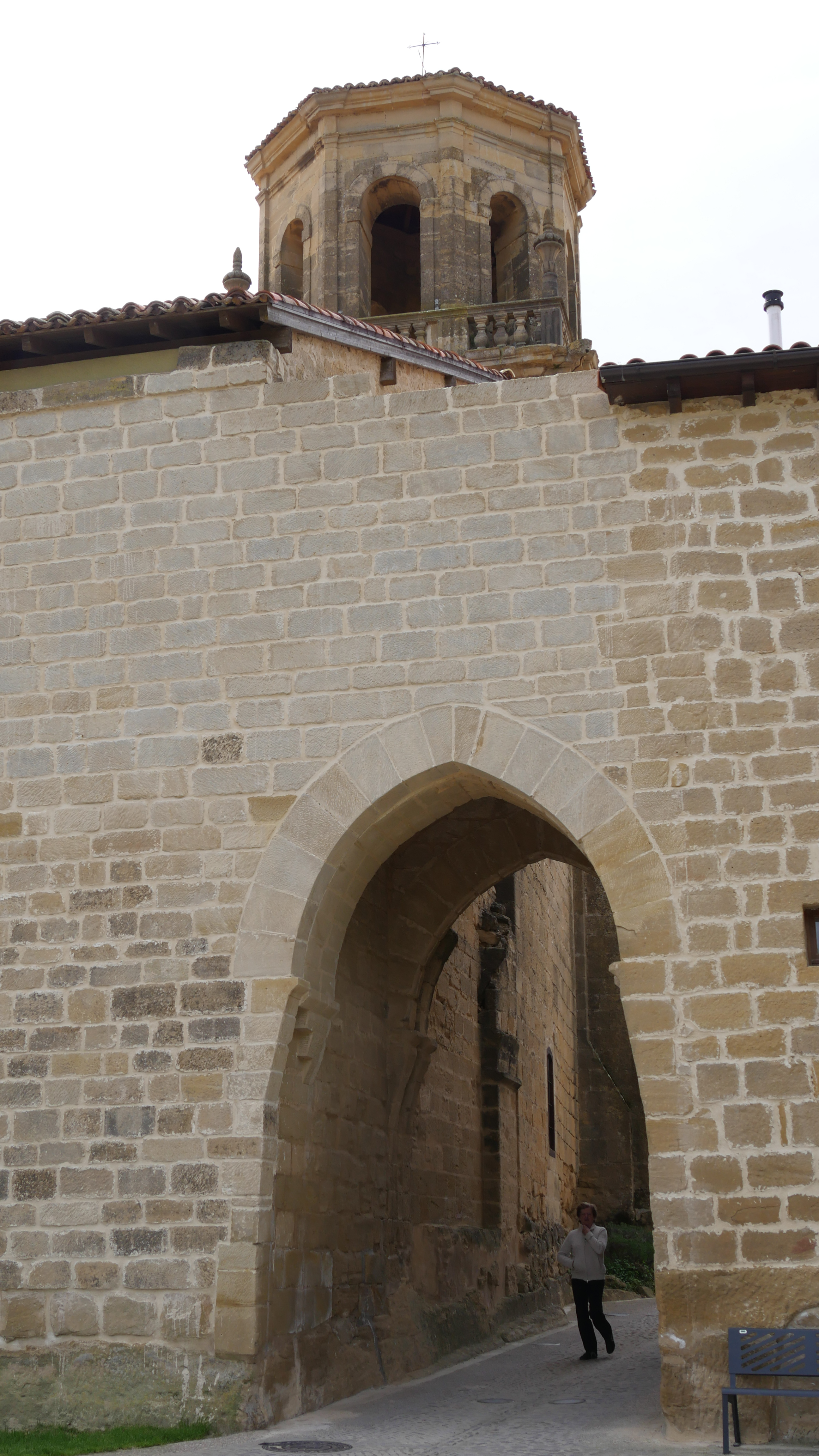 Medieval arch on the City walls of Sajazarra in La Rioja (Spain). On top it can be seen the Tower of the Church of Santa María de la Ascensión.